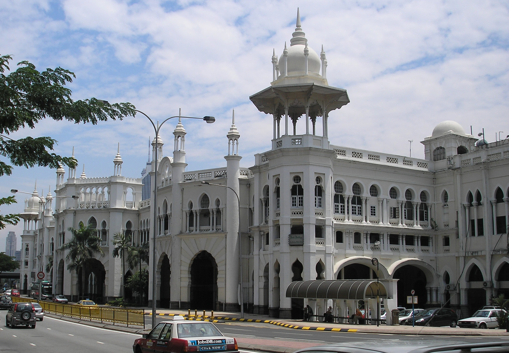 The frontal facade of the Kuala Lumpur railway station (Rawang-Seremban/Sentul-Port Klang), Kuala Lumpur, Malaysia. This Moorish influenced building was completed in 1910 by the British colonial authorities and is today a railway museum.